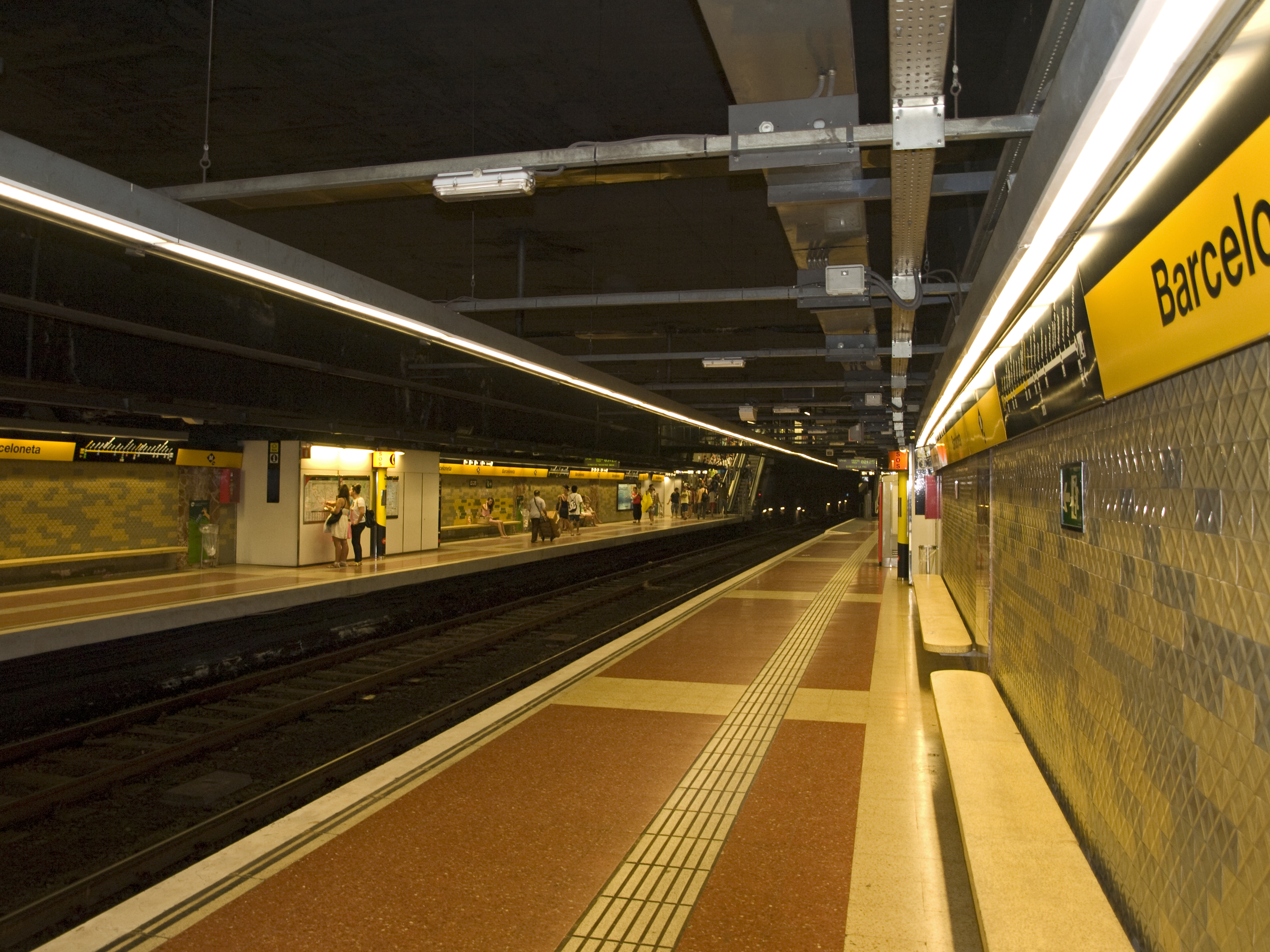 Barceloneta station platforms, line L4, Barcelona Metro. The photo is taken from the southbound platform.